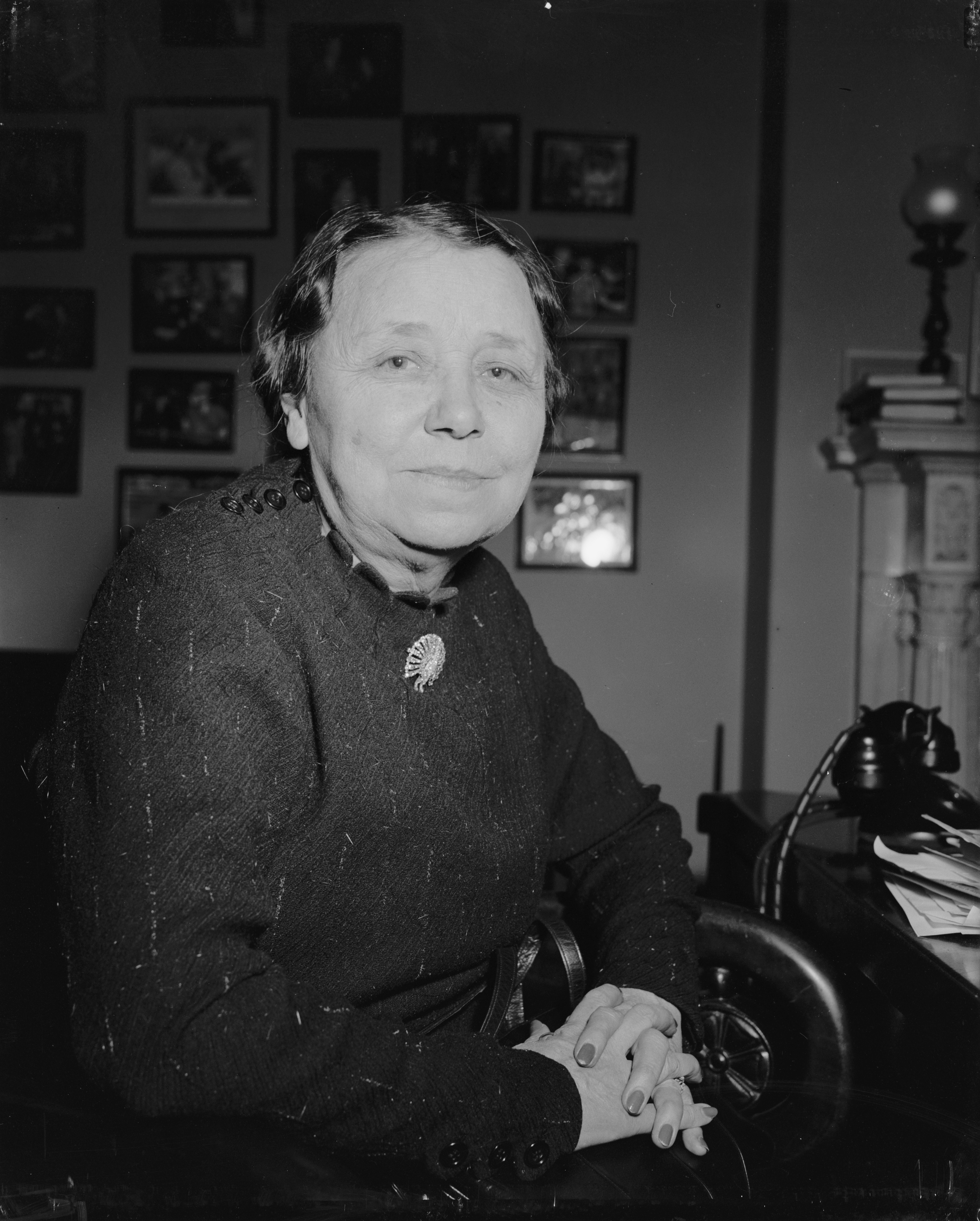 Title: Arkansas senator. Washington, D.C., March 11. Senator Hattie W. Caraway, Democrat of Arkansas, from a new informal picture made in her office at the Capitol today, 3-11-40 Abstract/medium: 1 negative : glass ; 4 x 5 in. or smaller